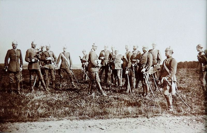 Historic military photos.